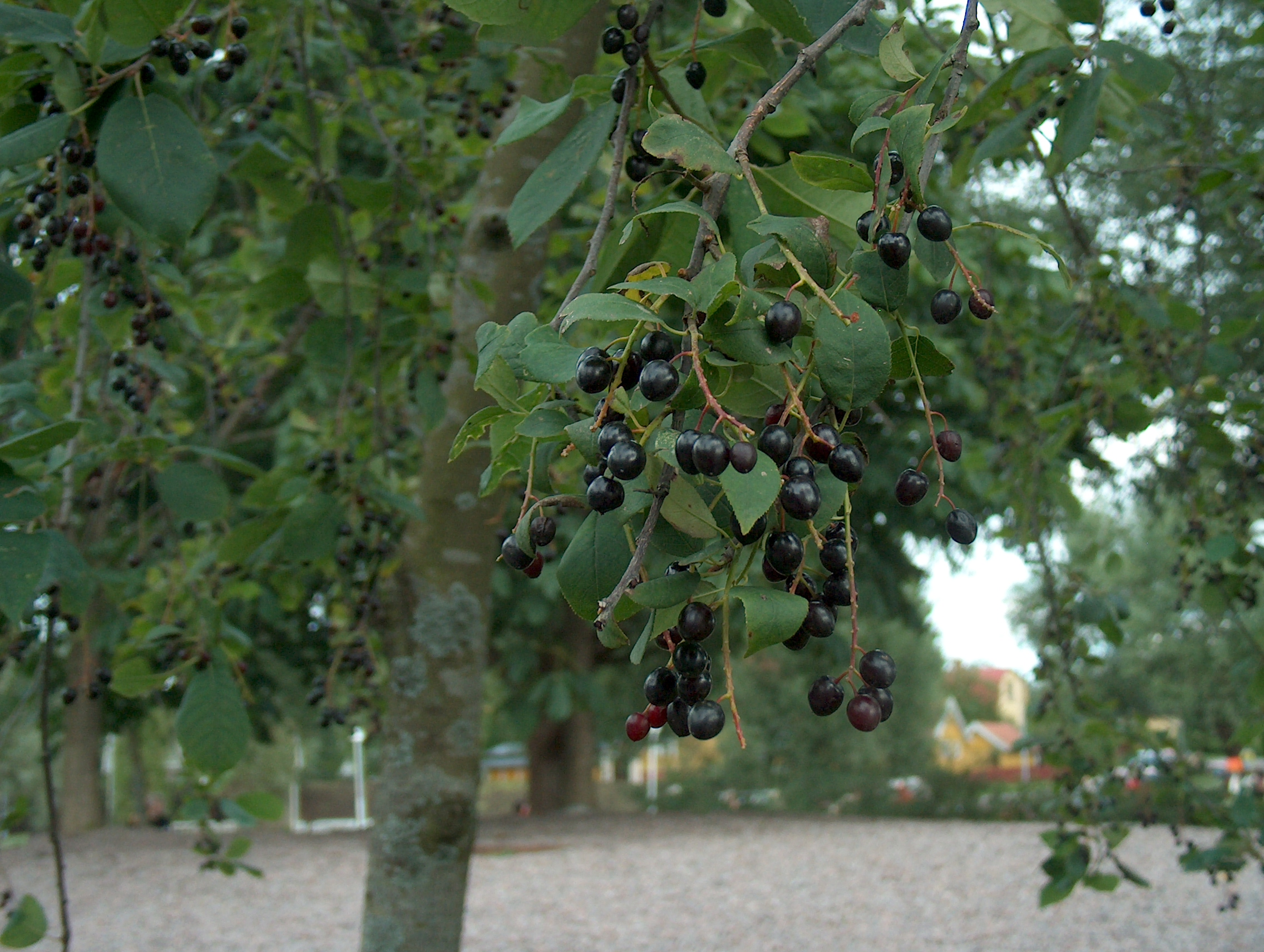 Prunus padus - Bird Cherry berries - Kerava, Finland